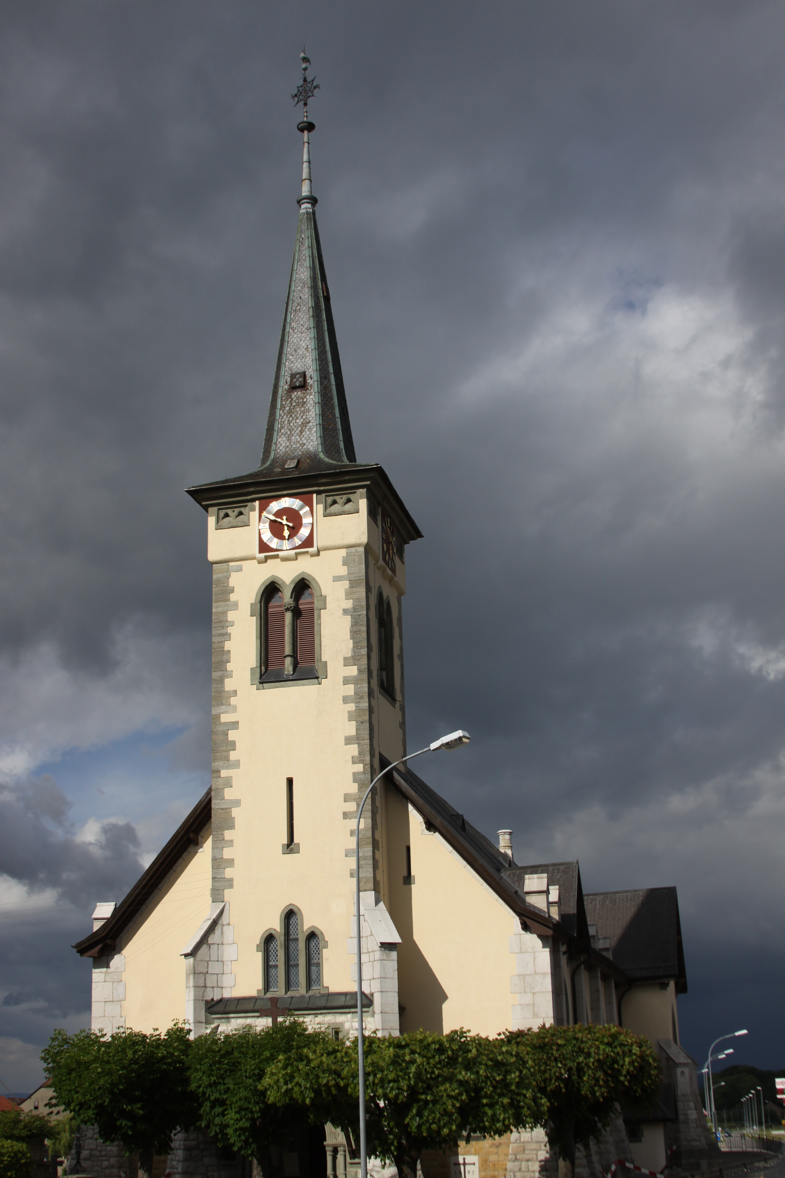 St. Martin's Church, Grand-Rue 59a, Cugy